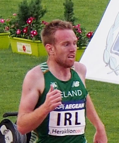 John Travers, from Irland during the 3,000 m race at 2015 European Team Championships First League.